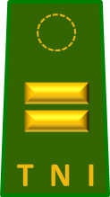 First Lieutenant rank insignia that used on daily uniforms of Indonesian Army